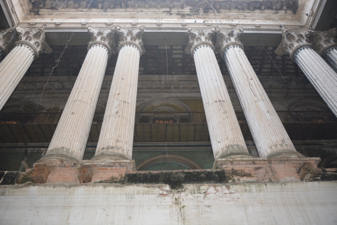 The pillars of the Chandimandap of Andul Rajbari.